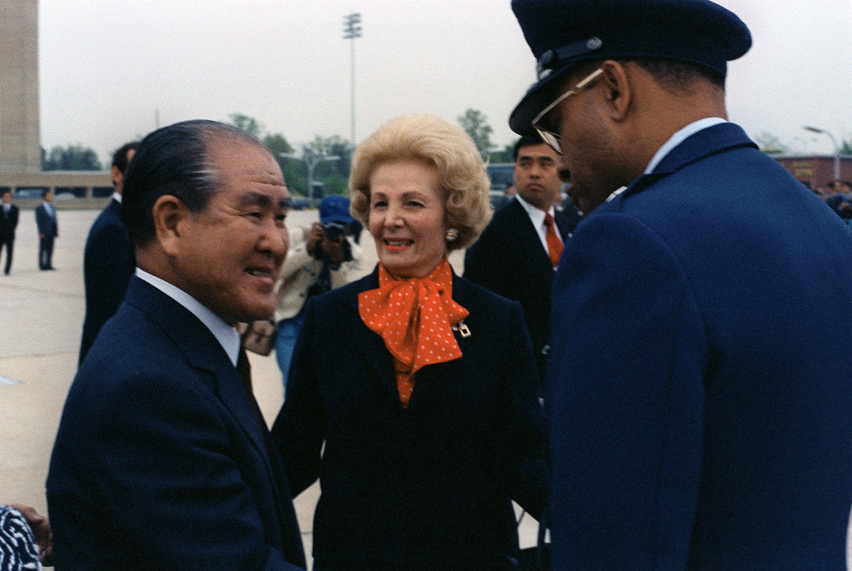 Japanese Prime Minister Zenkō Suzuki (鈴木善幸1911–2004) is welcomed upon arrival to the United States for a visit.